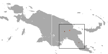 Calaby's Pademelon (Thylogale calabyi) range (brown — extant, orange — possibly extinct)